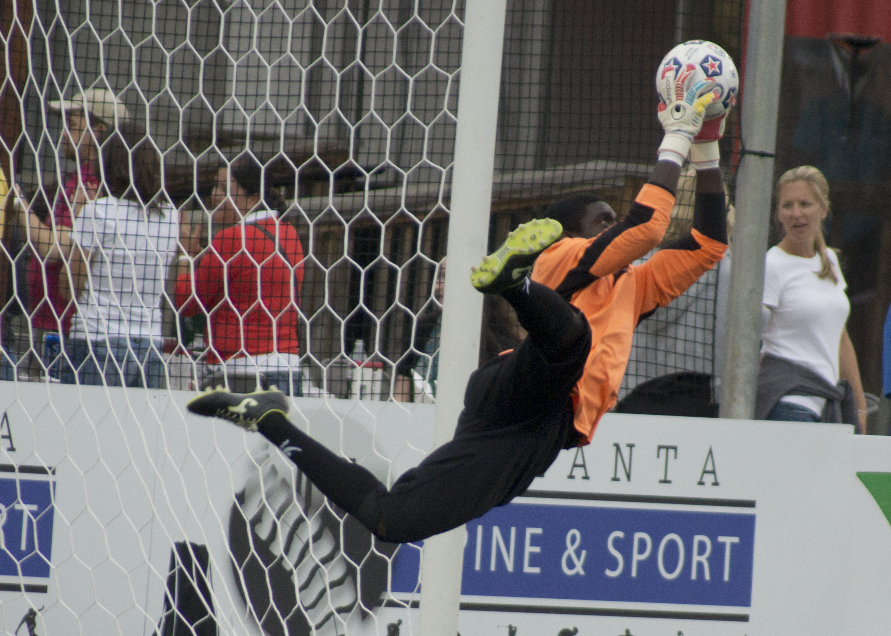 Eric Ati - playing for Atlanta Silverbacks on April 21st, 2012